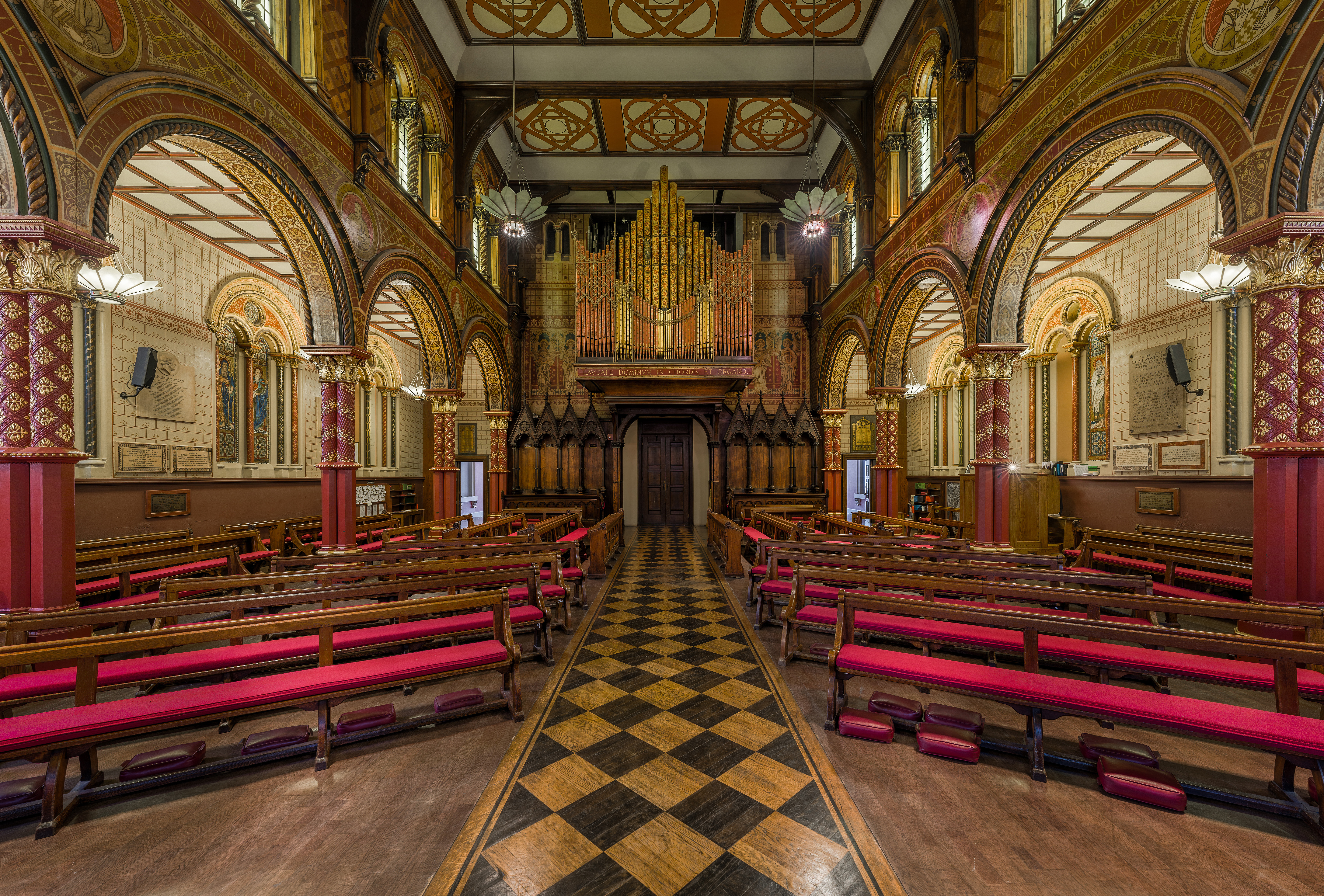 The interior of King's College London Chapel facing the entrance and organ.